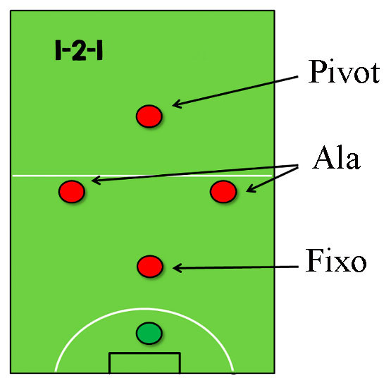 Pivot=Target, Attacker, #5; Ala=Wingers, Mids, #3 and #4; Fixo=Defender, #2; Goalkeeper=GK, #1